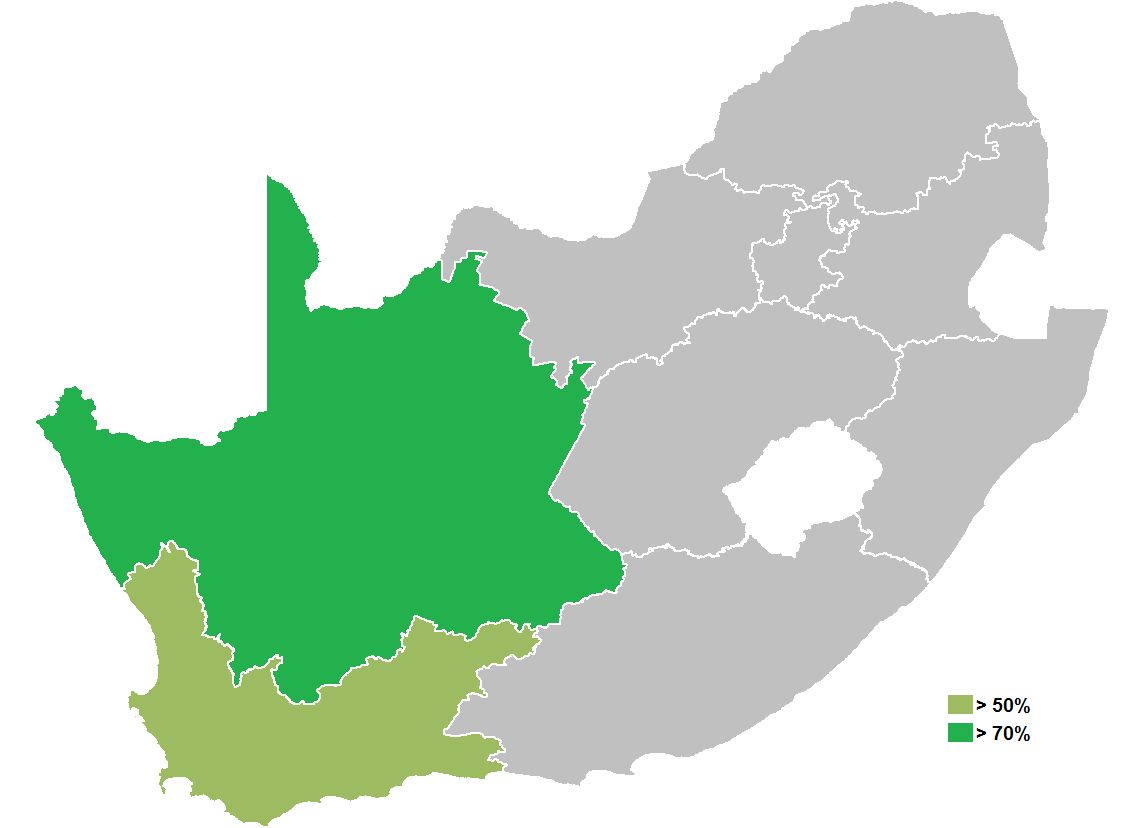 Provinces of South Africa in which a majority of the population are Afrikaans native speakers. Other provinces also have significant numbers of speakers.